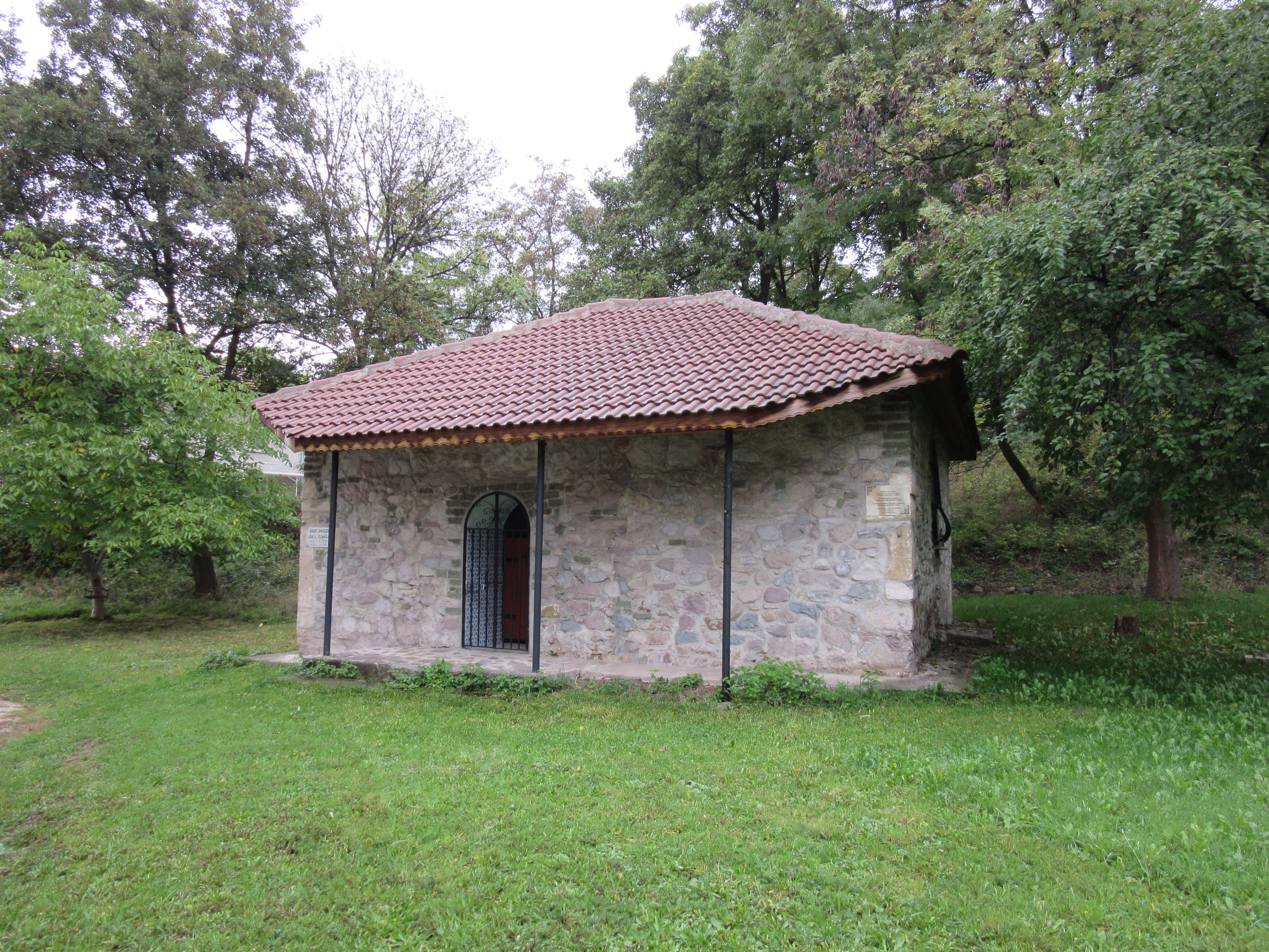 The Tomb of Bali Efendi in Knyazhevo, Sofia